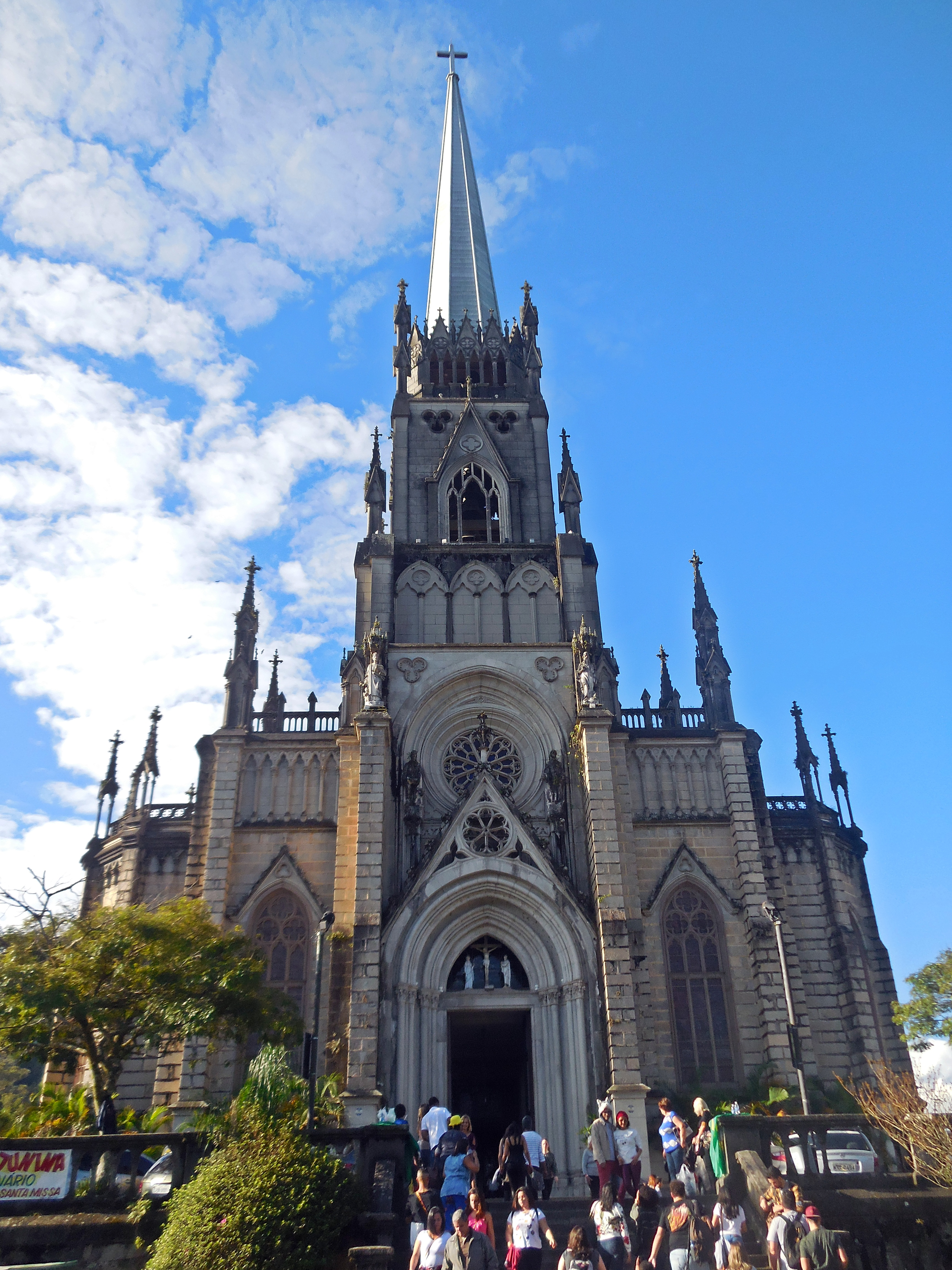 Facade of the Saint Peter of Alcantara Cathedral, in Petrópolis, Rio de Janeiro, Brazil.